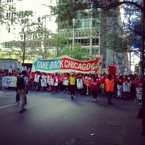 Photograph of striking members of the Chicago Teachers Union, September 11, 2012.